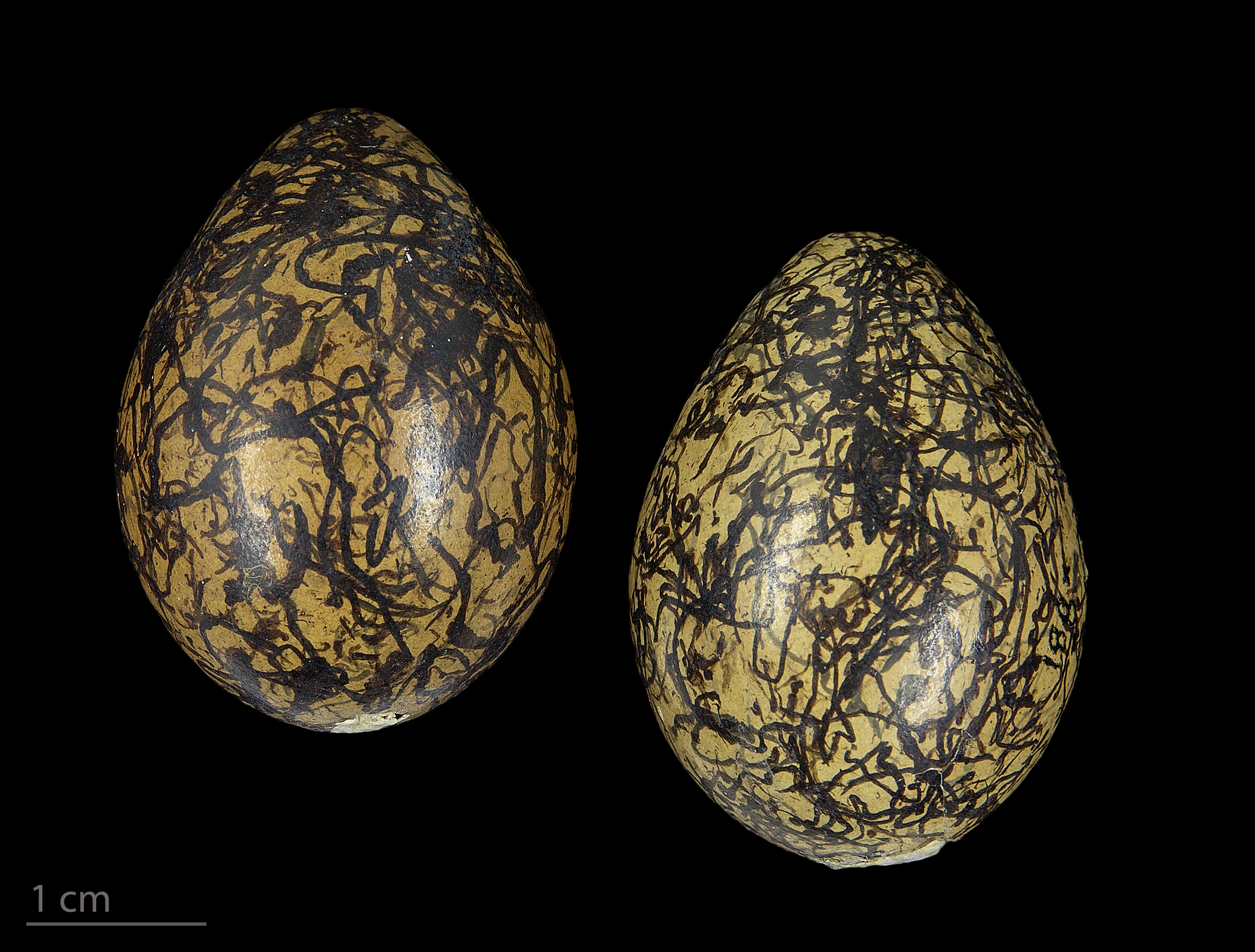 Egg of African jacana Collection of Jacques Perrin de Brichambaut.